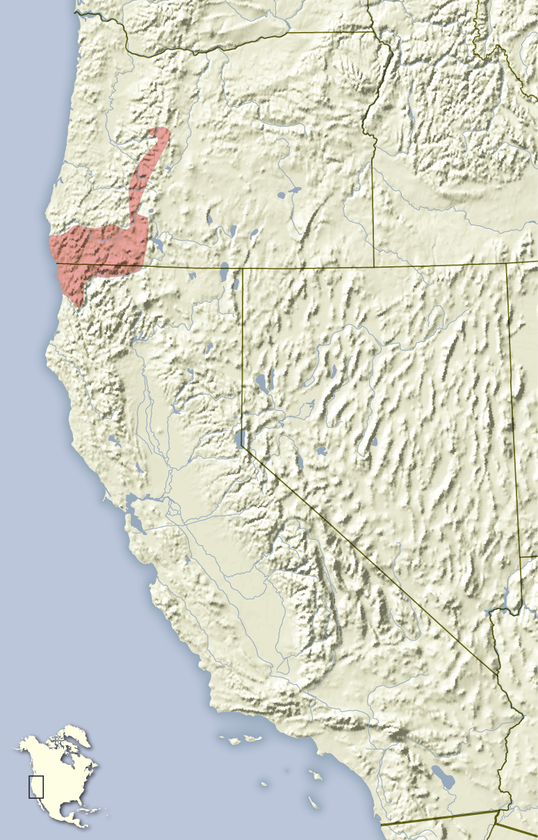 Distribution map of the Siskiyou chipmunk